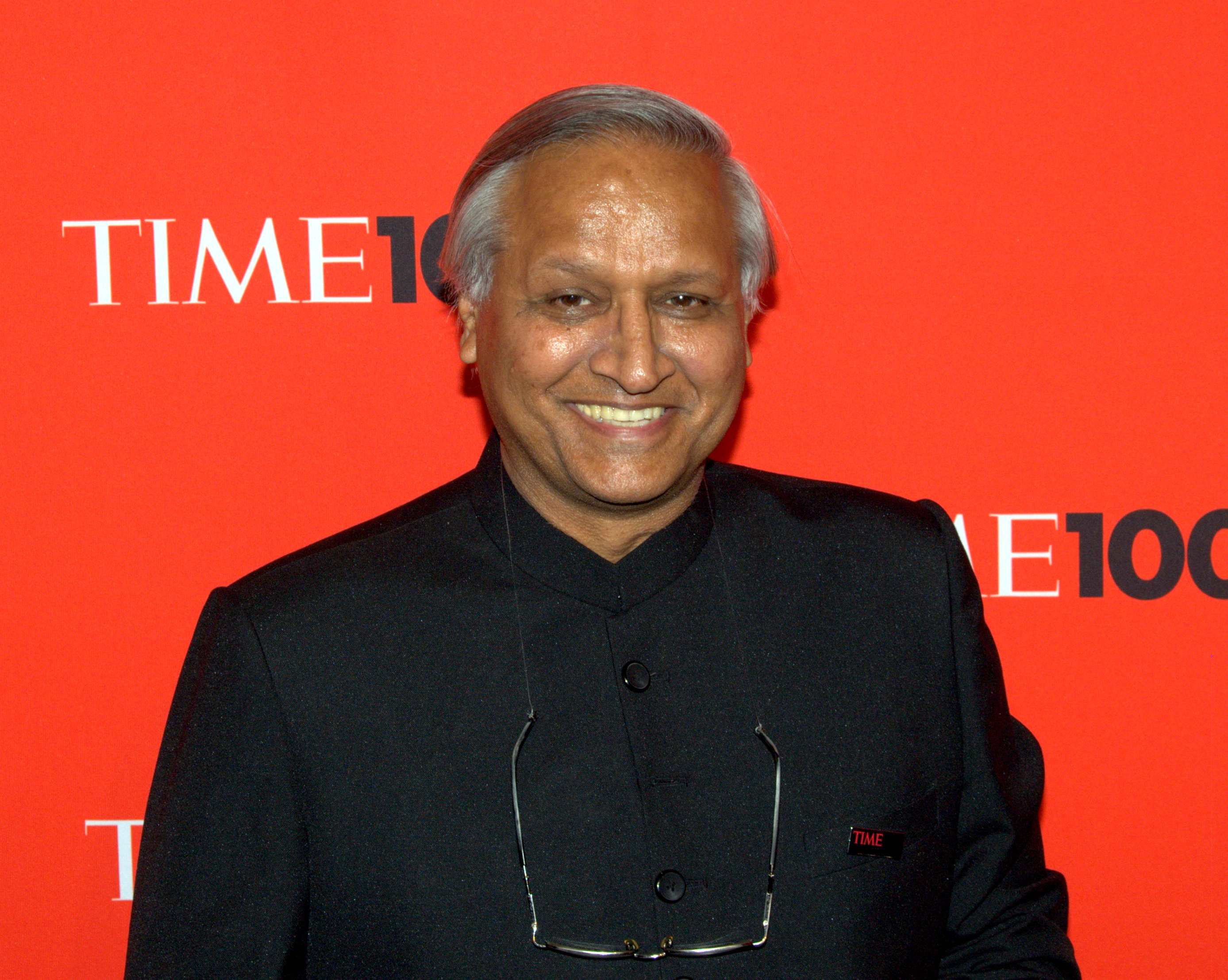 This photo is from the Time 100 Gala - click here to read my posts about some of these amazing people.